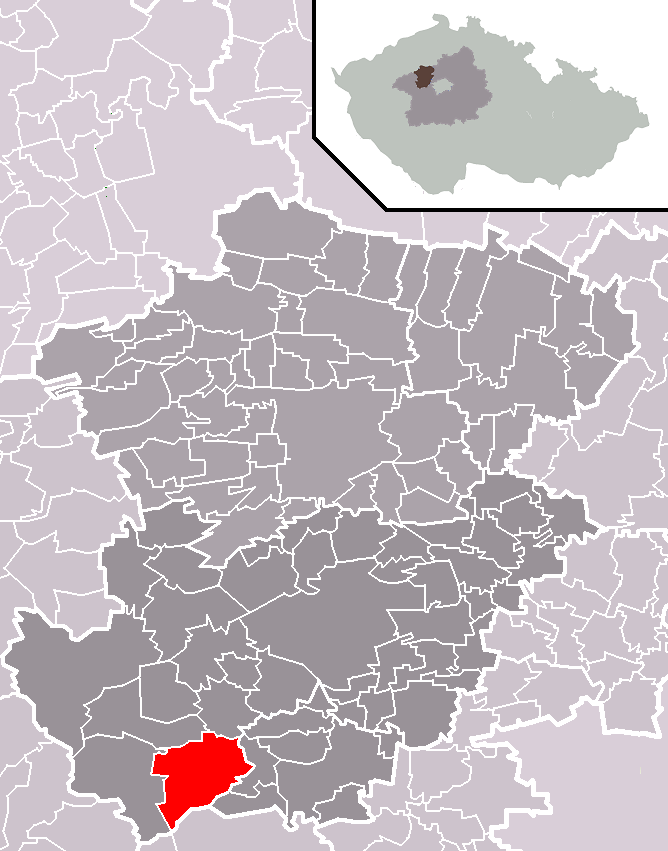 Location of Bratronice municipality within Kladno District and administrative area of Kladno as a Municipality with Extended Competence.